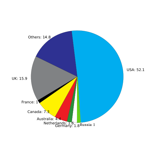 English Wikipedia contributors by country.